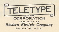 Teletype Logo